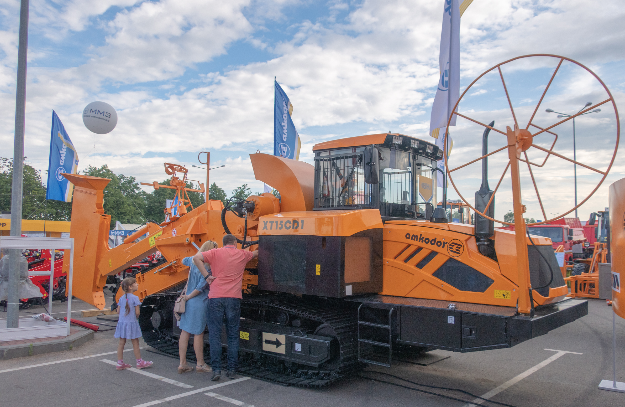 Amkodor XT15CD1 trencher (ditcher). Photo taken at Belagro-2019 exhibition (Minsk district, Belarus)